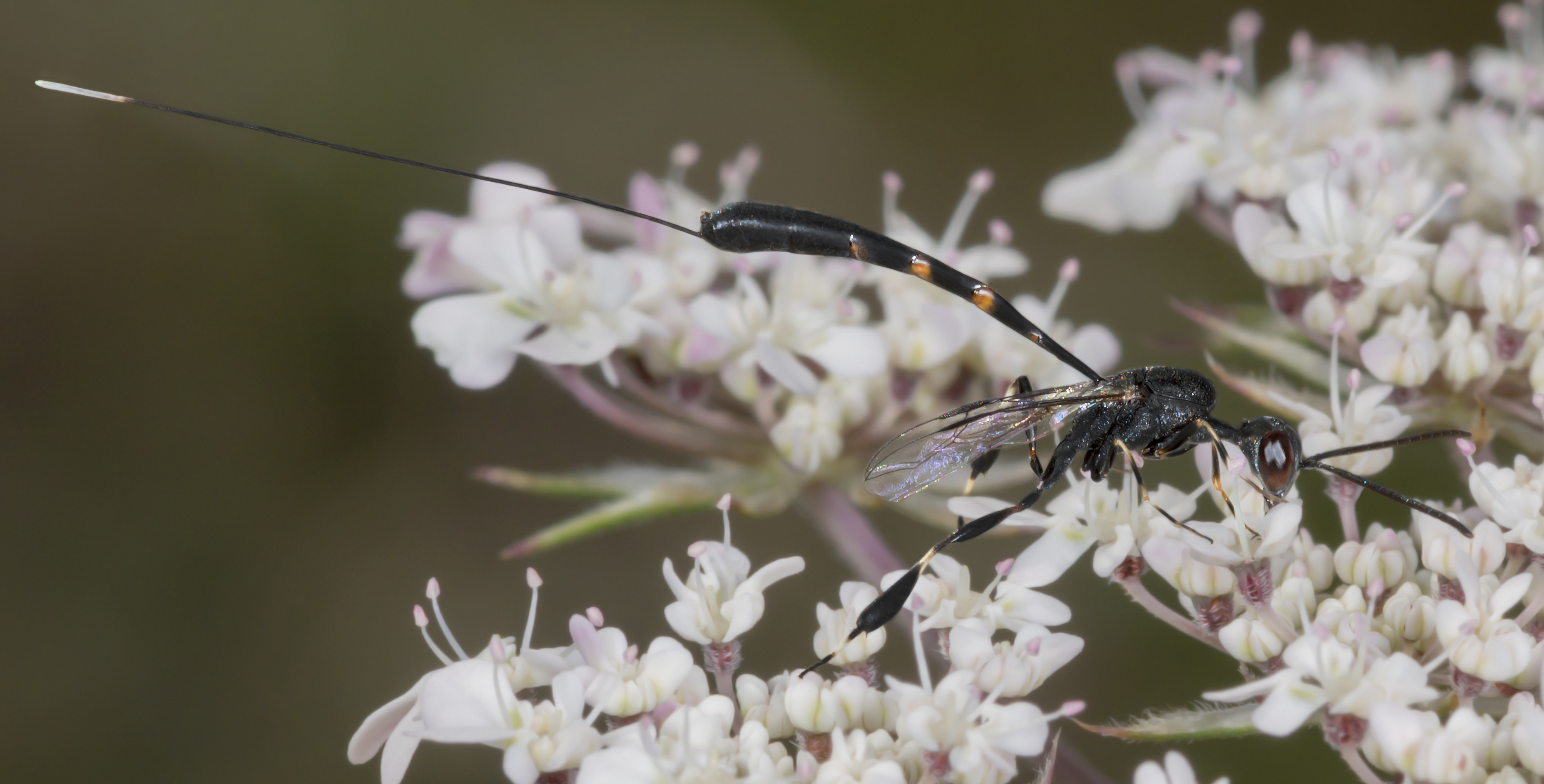 Gasteruption jaculator - Side view